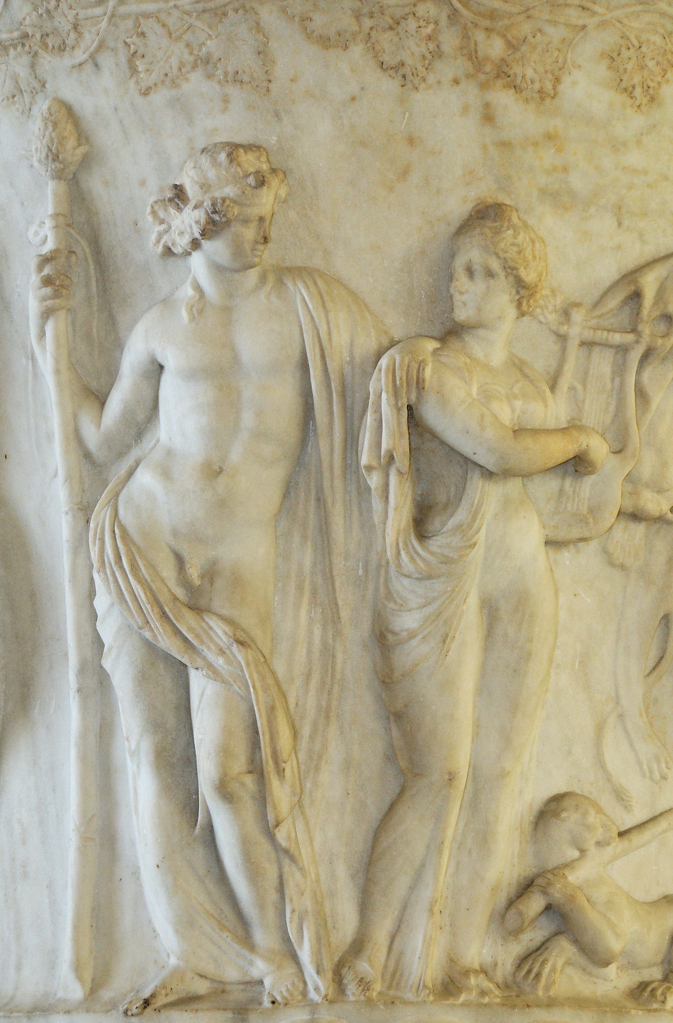 Dionysos wearing the mitra and holding a thyrsus with Ariadne playing the kithara; detail of the side A from the Borghese Vase. Pentelic marble, Attic work, ca. 40–30 BC. Found in 1569 in the Horti Sallustiani, Rome.